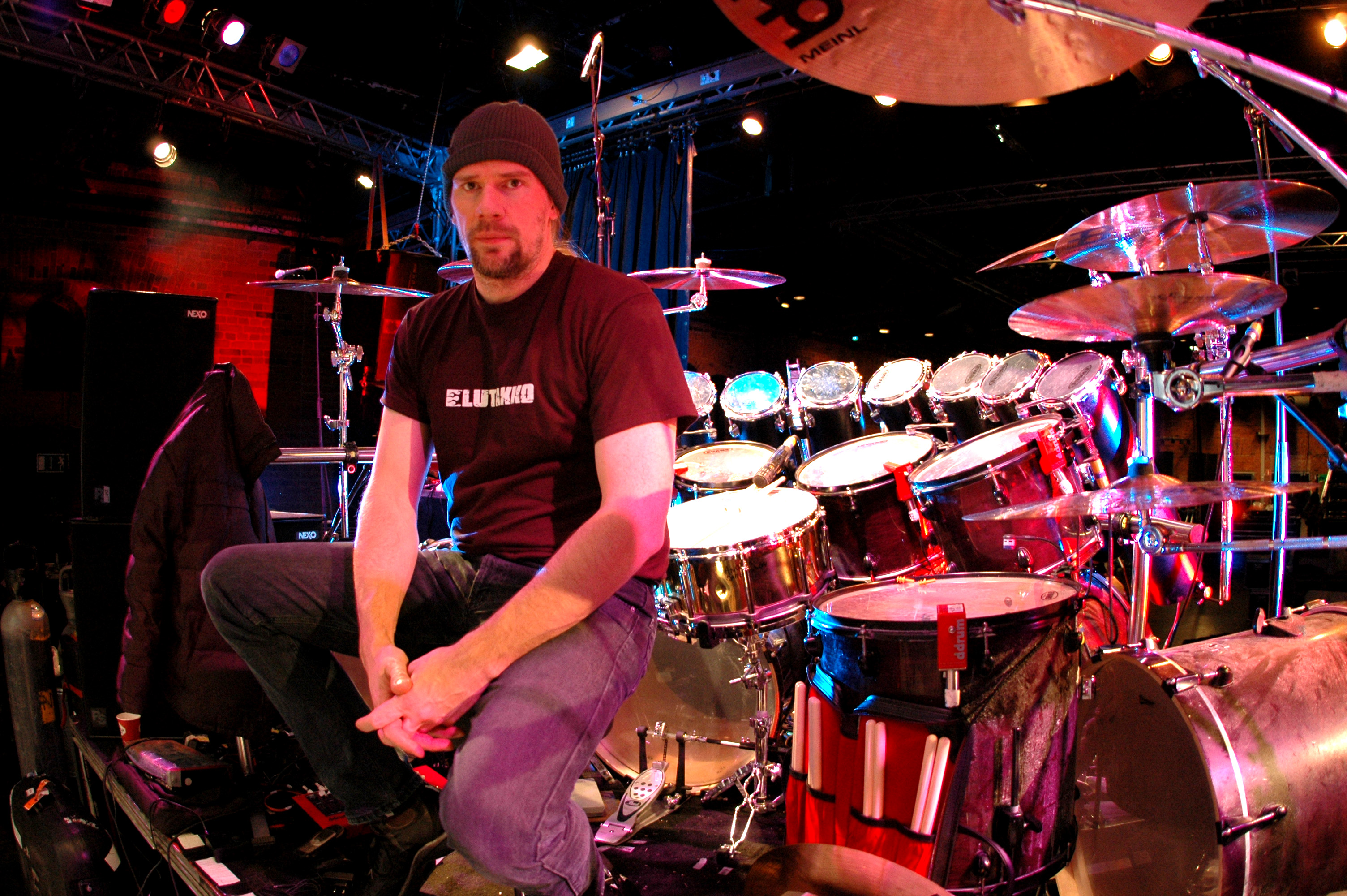 Anders Johansson's kit from behind.